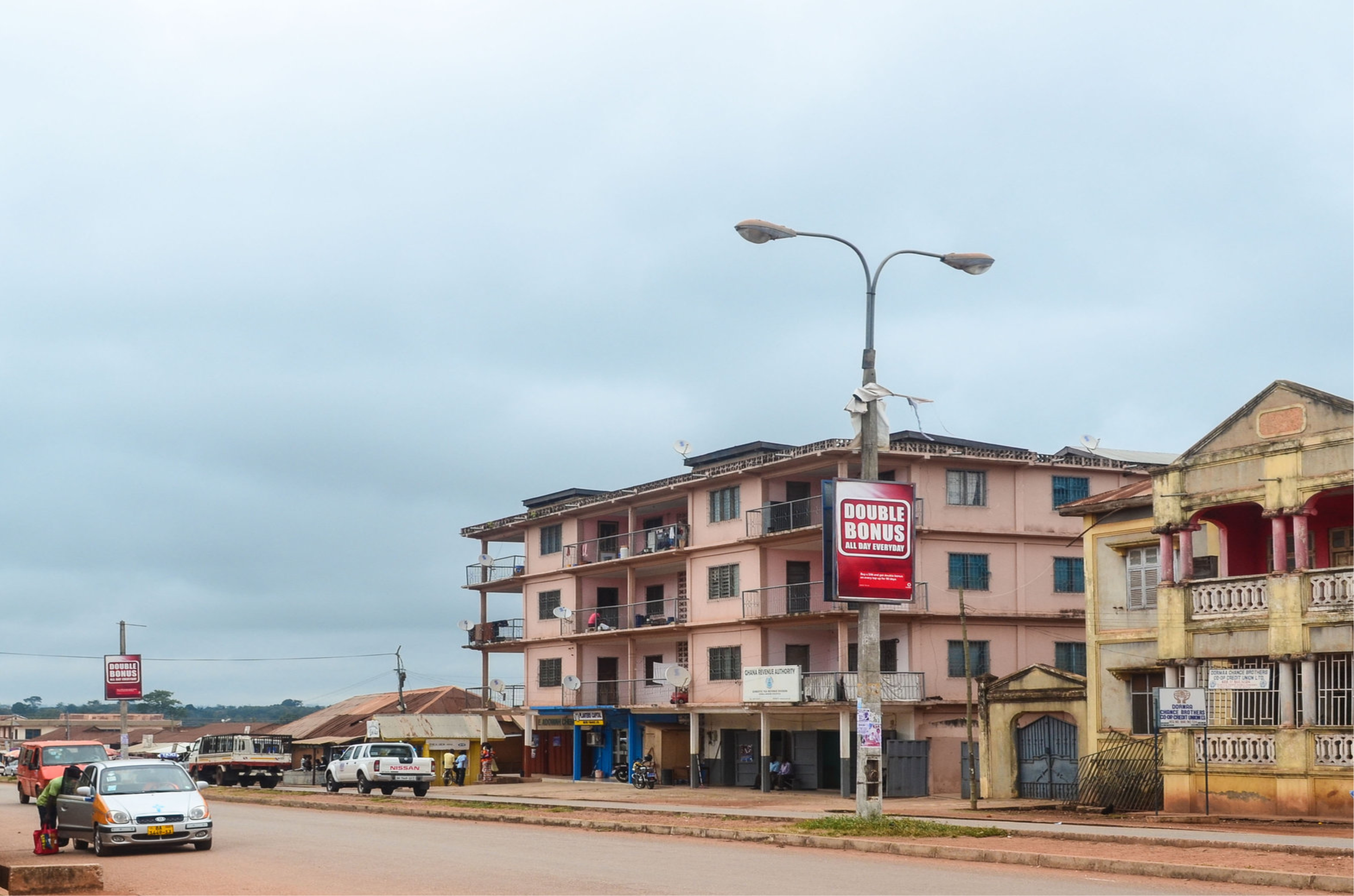 Dormaa Ahenkro in Brong-Ahafo Region, Ghana.